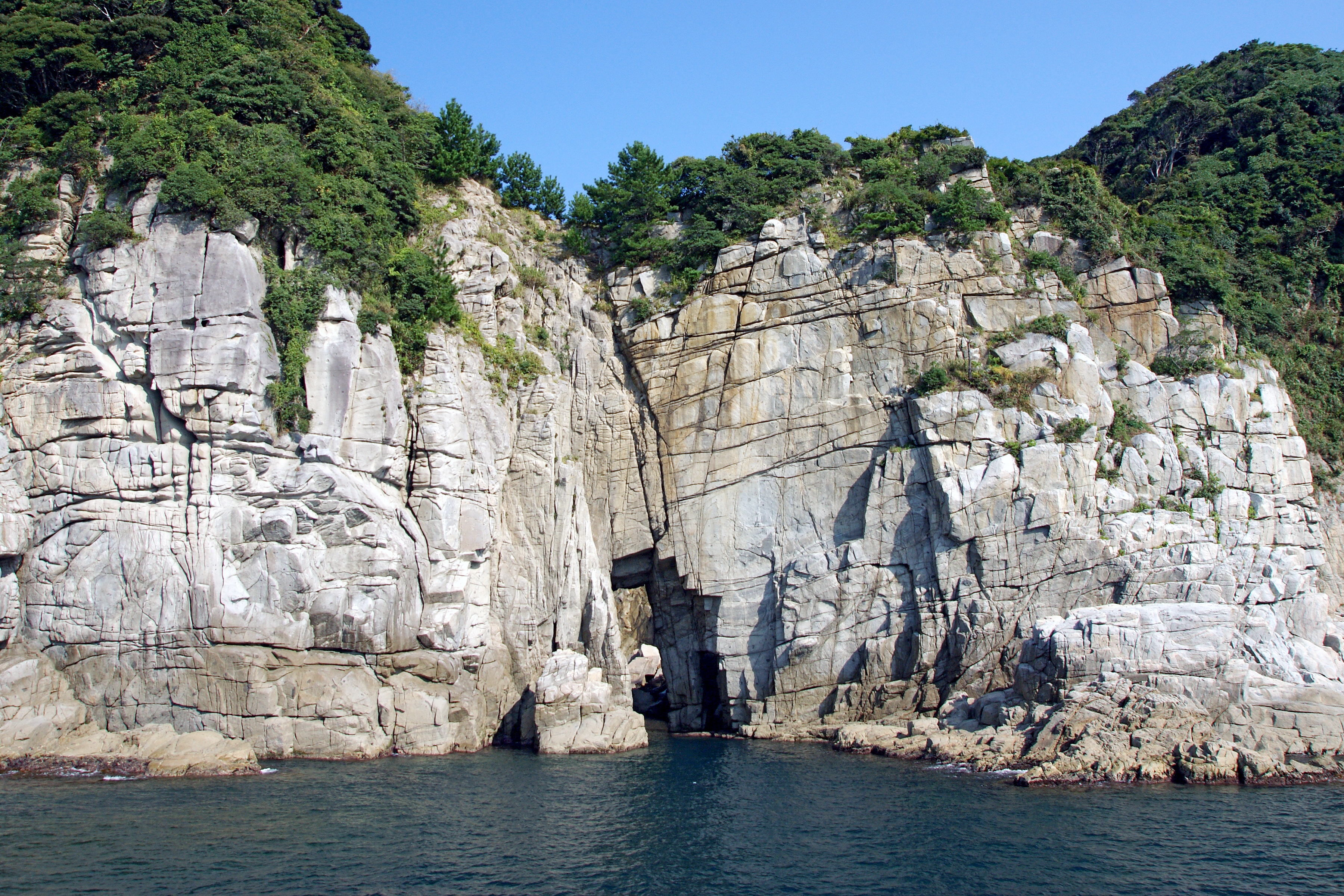 Sotomo, Obama, Fukui prefecture, Japan